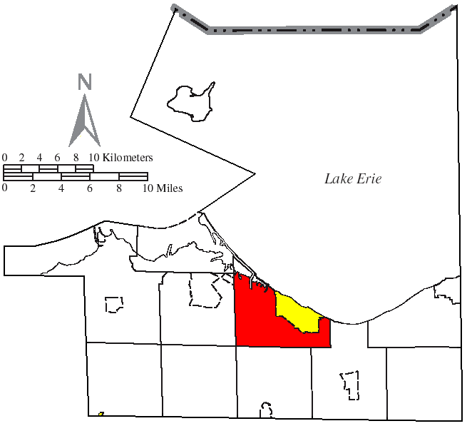 Made by the US Census and modified by myself